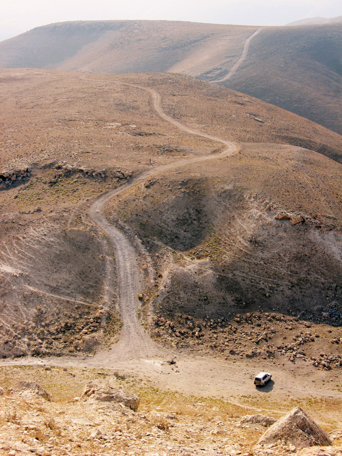 Road leading to Sartaba, Israel